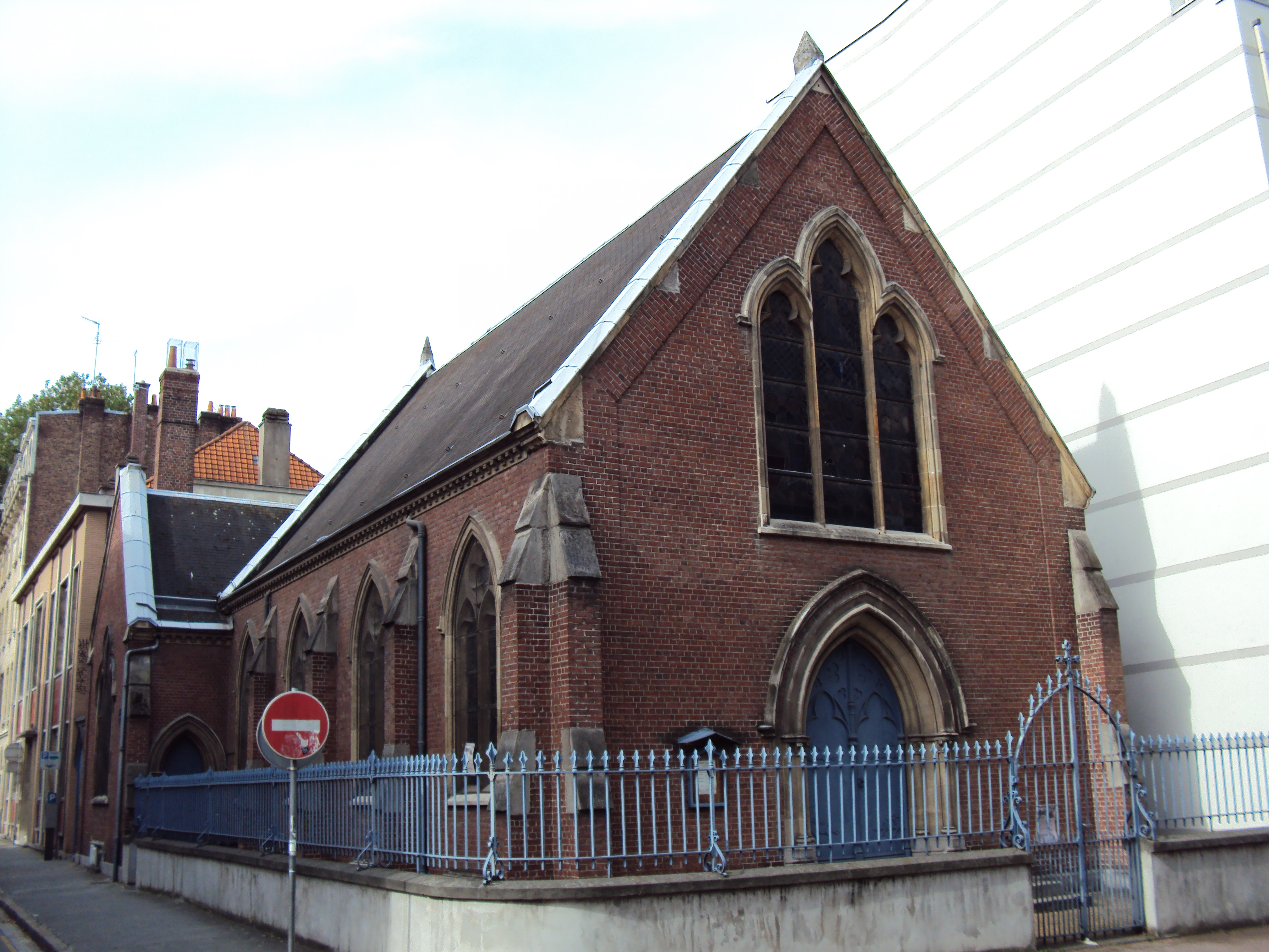 Christ Church Anglican Church, 14 Rue Lyderic, Lille, France